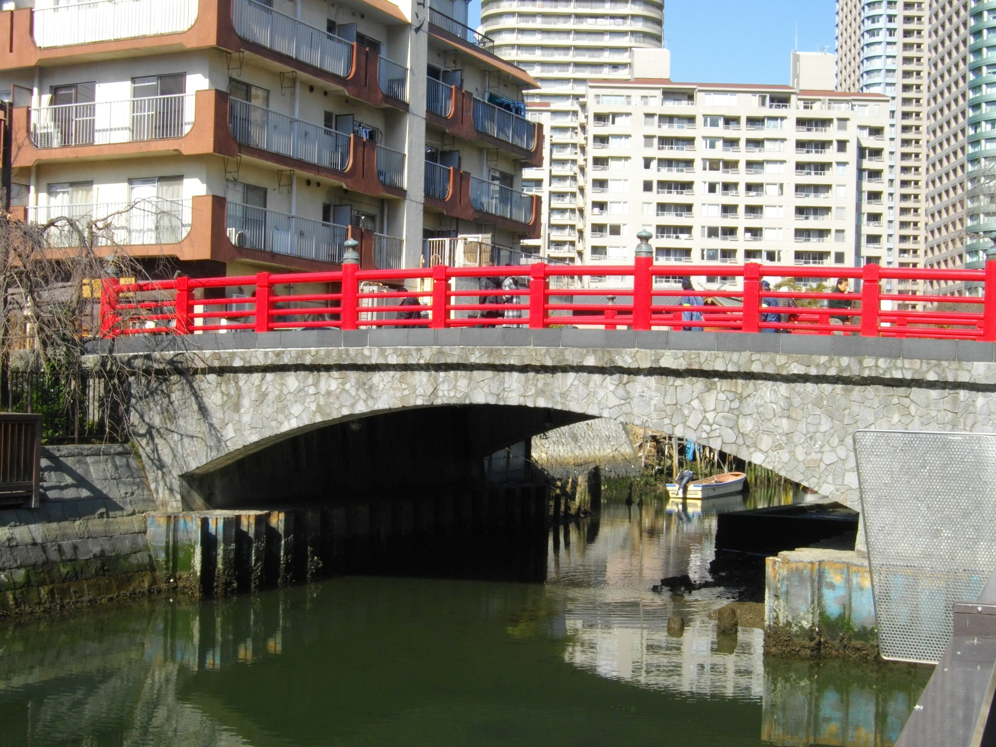 Tsukuda-Kobashi